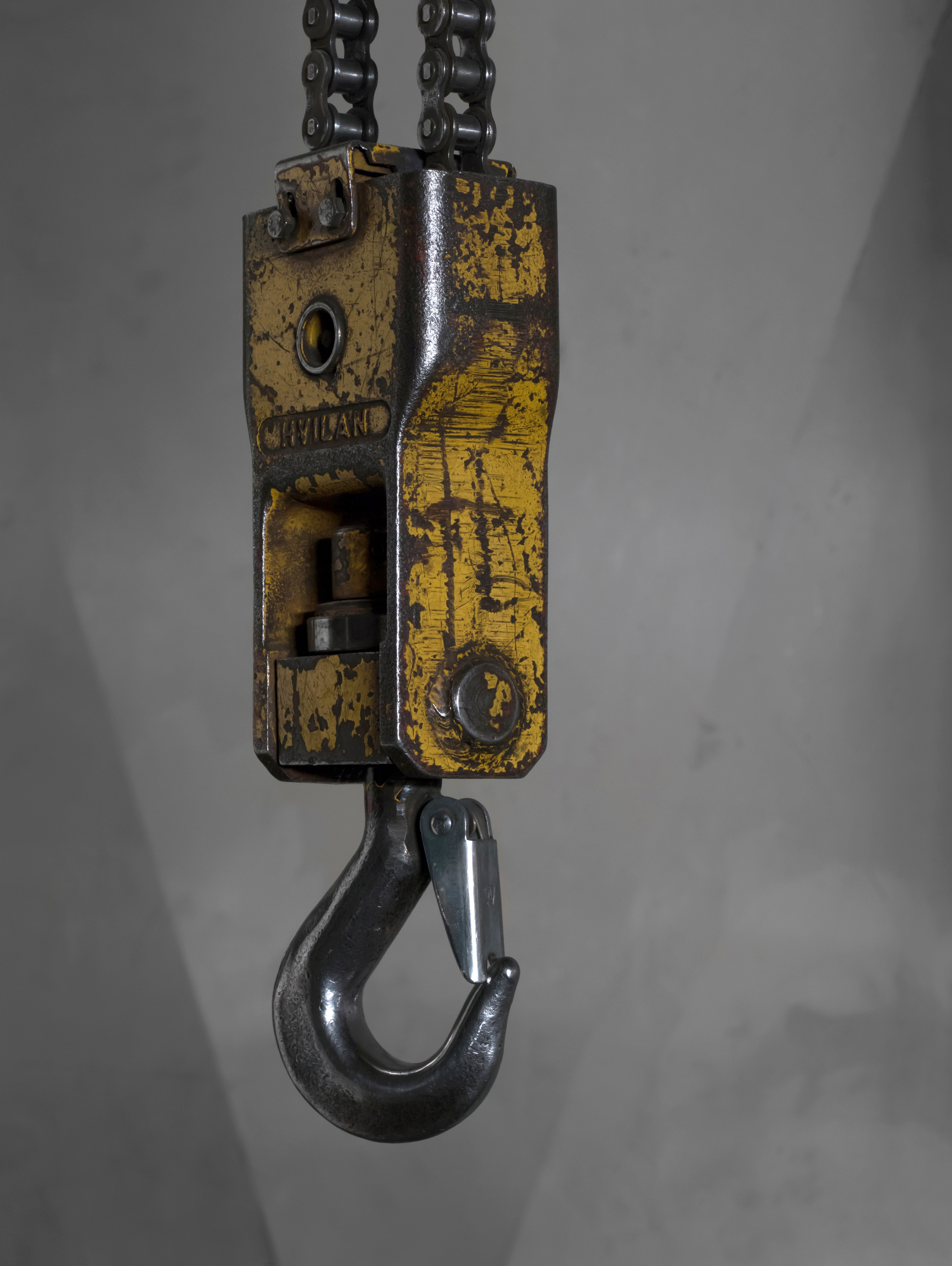 Lifting hook with a safety latch hanging from a bridge crane at a mechanical workshop in Gåseberg, Lysekil Municipality, Sweden. The background is a door covered with slightly dirty bent sheet metal.